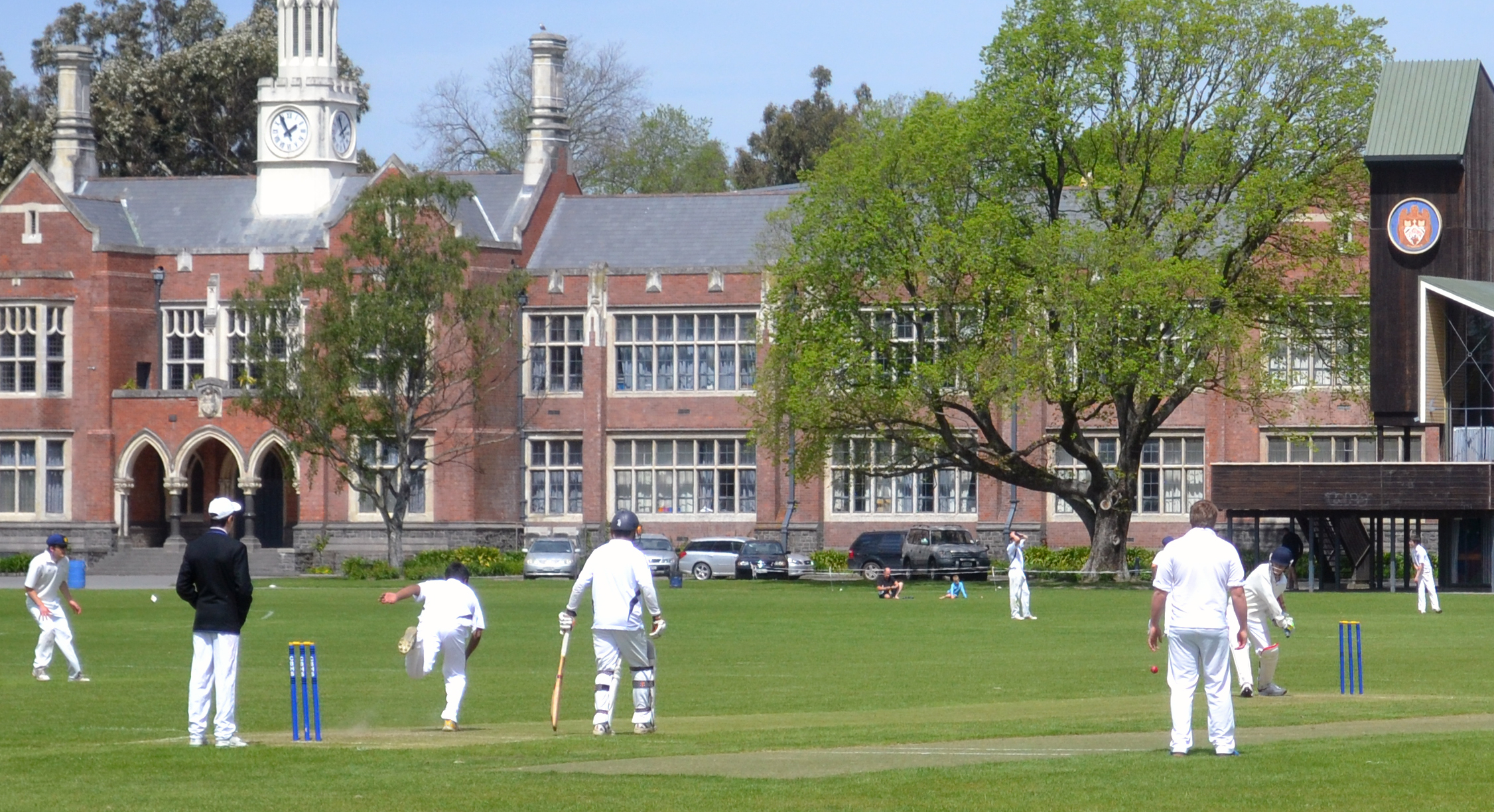 Students